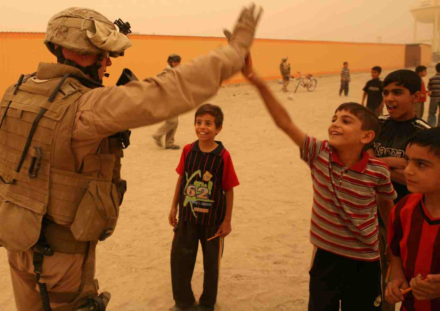 Corporal Jonathan C. Austin, communications chief and convoy commander with Company B, Iraqi Transition Team 8, Regimental Combat Team 1, slaps an Iraqi child "hi-five" during a patrol through Fallujah June 9, 2008. Austin, a Lincolnton, North Carolina native, took a few minutes with some transition members to play soccer with neighborhood children during the operation.